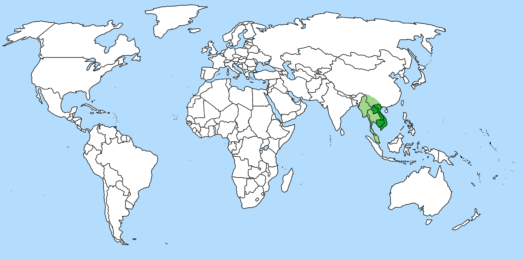 Indo-China (by origin today's Vietnam, Laos and Combodia, but as a region usually Thailand, Myanmar and Peninsular Malaysia are included)